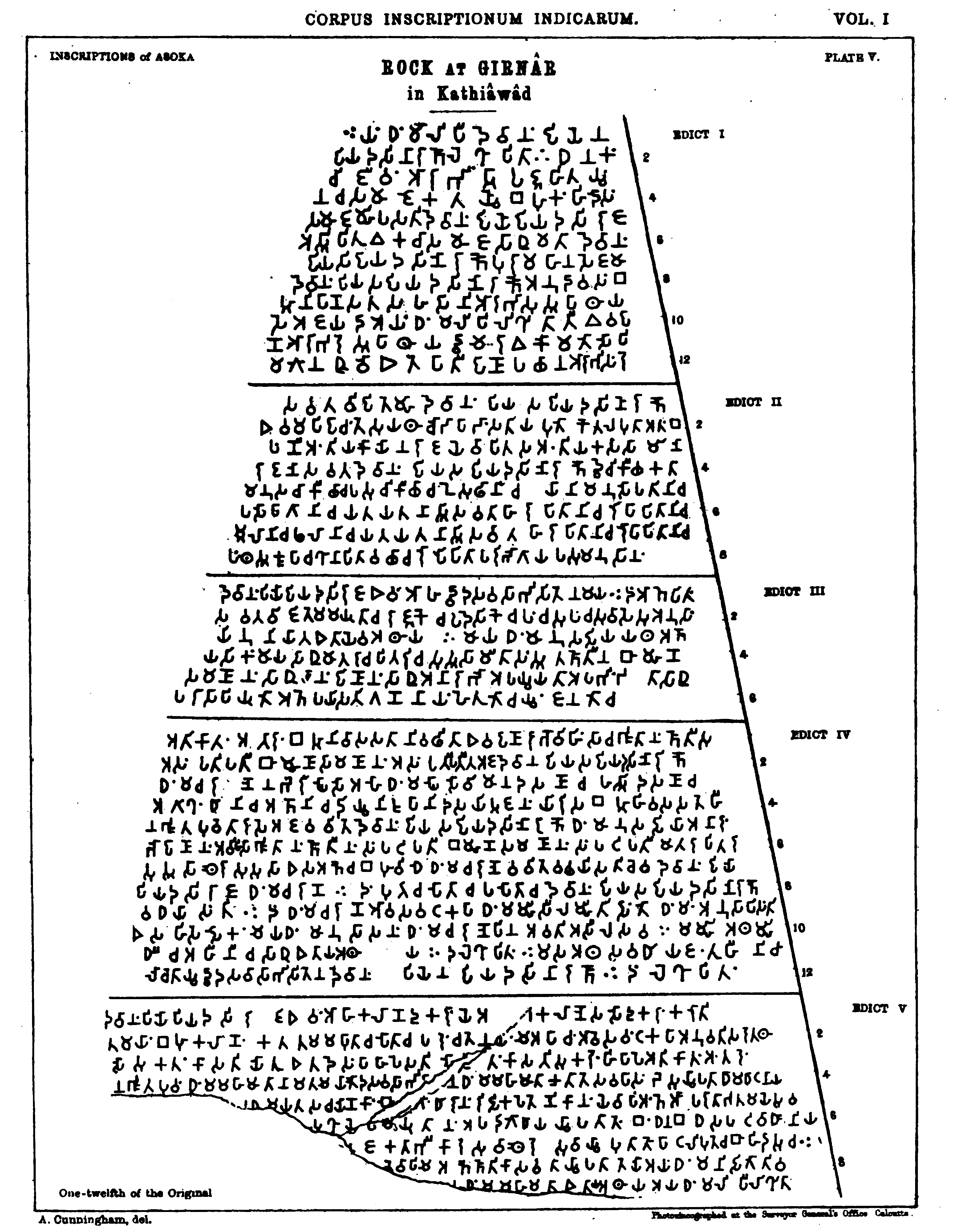 Ashoka's Rock Edict at Girnar.